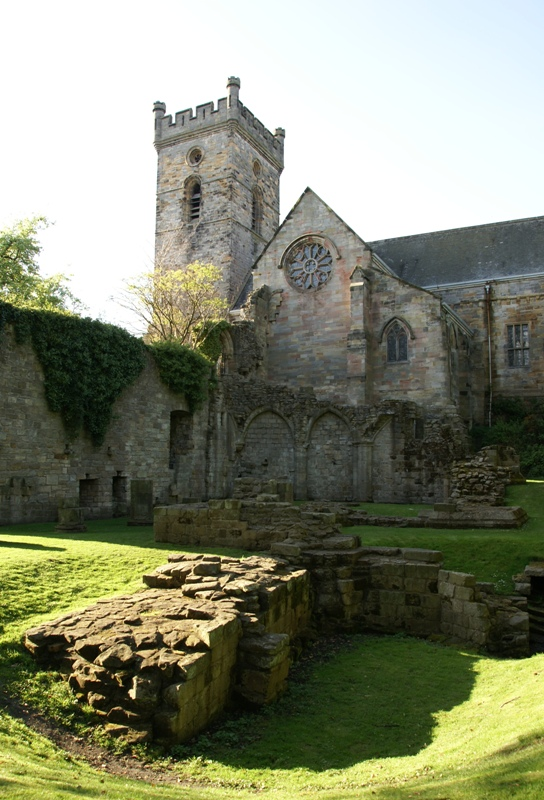 Culross Abbey, Culross, Fife, Scotland